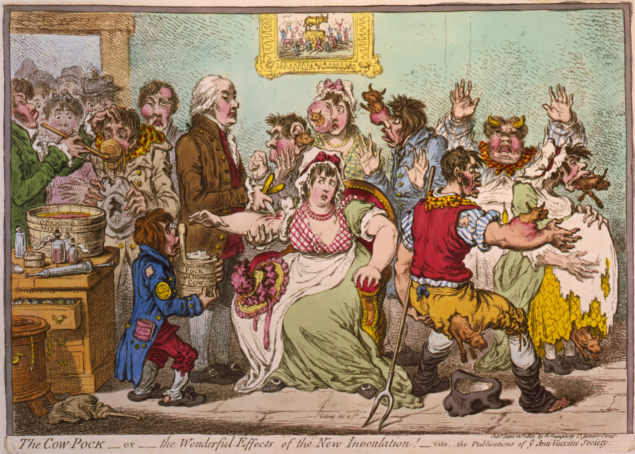 The Cow-Pock—or—the Wonderful Effects of the New Inoculation!—vide. the Publications of ye Anti-Vaccine Society Print (color engraving) published June 12, 1802 by H. Humphrey, St. James's Street. In this cartoon, the British satirist James Gillray caricatured a scene at the Smallpox and Inoculation Hospital at St. Pancras, showing cowpox vaccine being administered to frightened young women, and cows emerging from different parts of people's bodies. The cartoon was inspired by the controversy over inoculating against the dreaded disease, smallpox. Opponents of vaccination had depicted cases of vaccinees developing bovine features and this is picked up and exaggerated by Gillray. Although the central figure is often assumed to be Edward Jenner circumstantial evidence suggests this may not be so. Although the director of the Smallpox Hospital William Woodville had originally supported Jenner, he and his colleague George Pearson, were in dispute with Jenner by the time the caricature was published. It is unlikely they would have met Jenner and it has been suggested that the central figure represents Pearson. Gillray often included clues to identify individuals who were not easily recognizable, but the only clue here is the badge on the arm of the boy which identifies his connection with Woodville's hospital. The boy holds a container labeled "VACCINE POCK hot from ye COW" and papers in the boy's pocket are labeled "Benefits of the Vaccine". The tub on the desk is labeled "OPENING MIXTURE". A bottle next to the tub is labeled "VOMIT". The painting on the wall depicts worshippers of the Golden Calf.